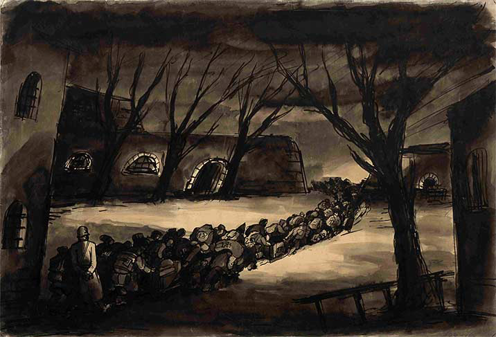 Artwork from the Theresienstadt ghetto